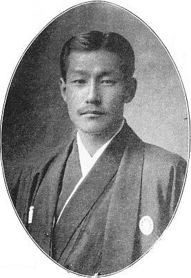 Masatada Yonezu